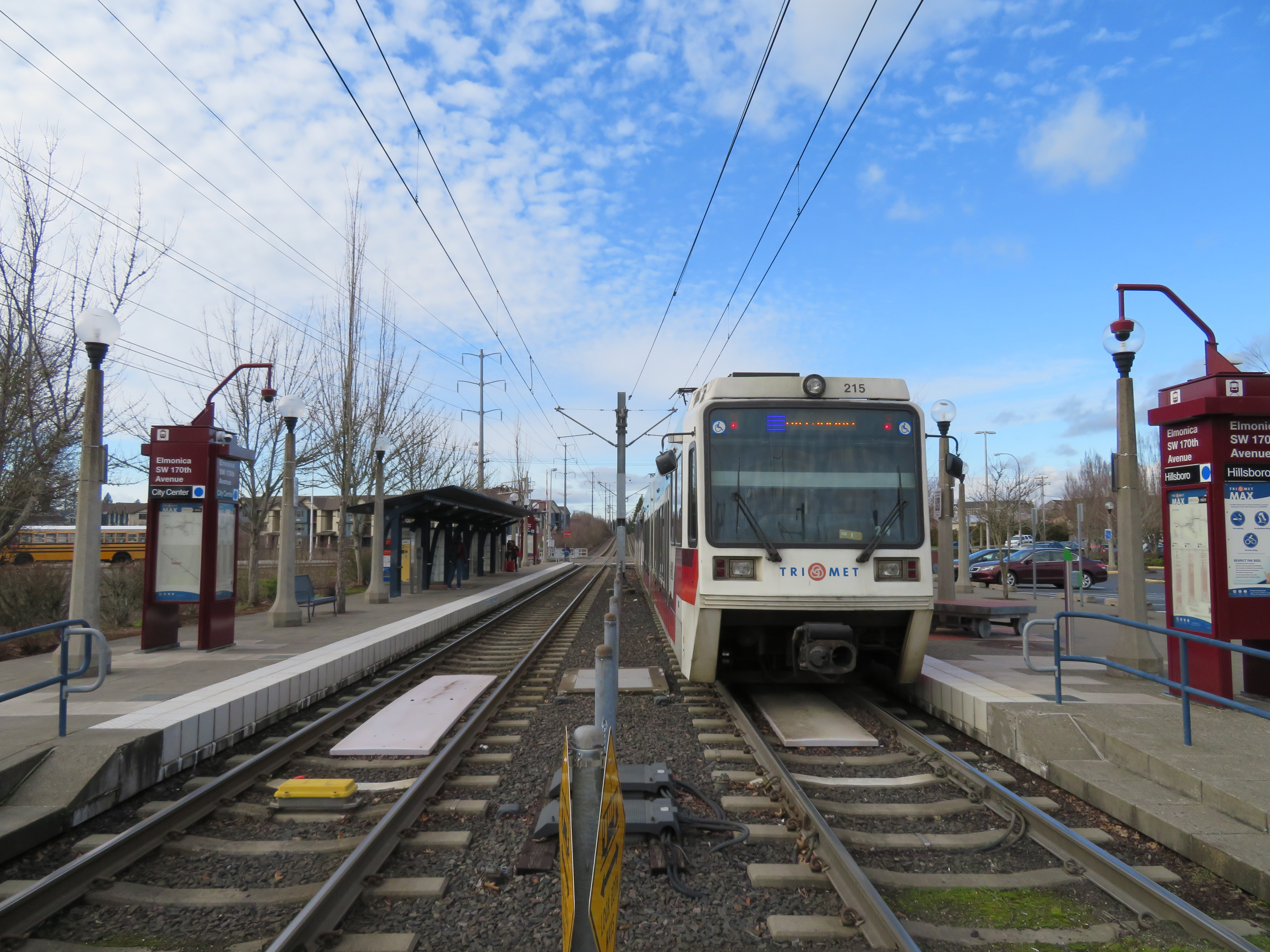 Westbound train at Elmonica/Southwest 170th Avenue station in February 2018